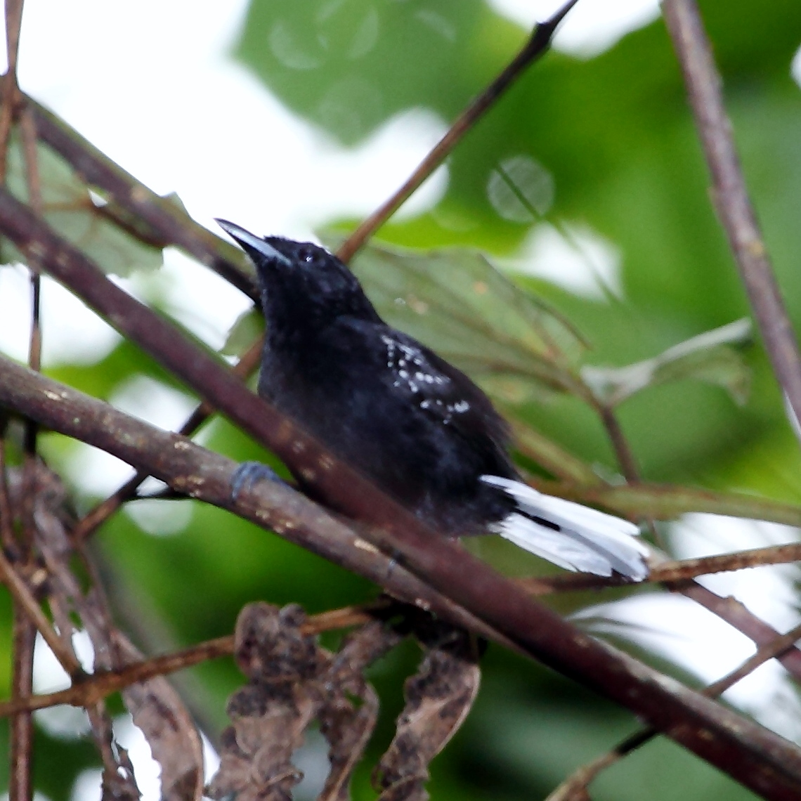 Dot-winged Antwren (male) at Apiacás - MT - Brazil